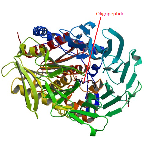 The three-dimentional structure of this oligopeptidase complexed with an oligopeptide in the internal cavity of the enzyme.